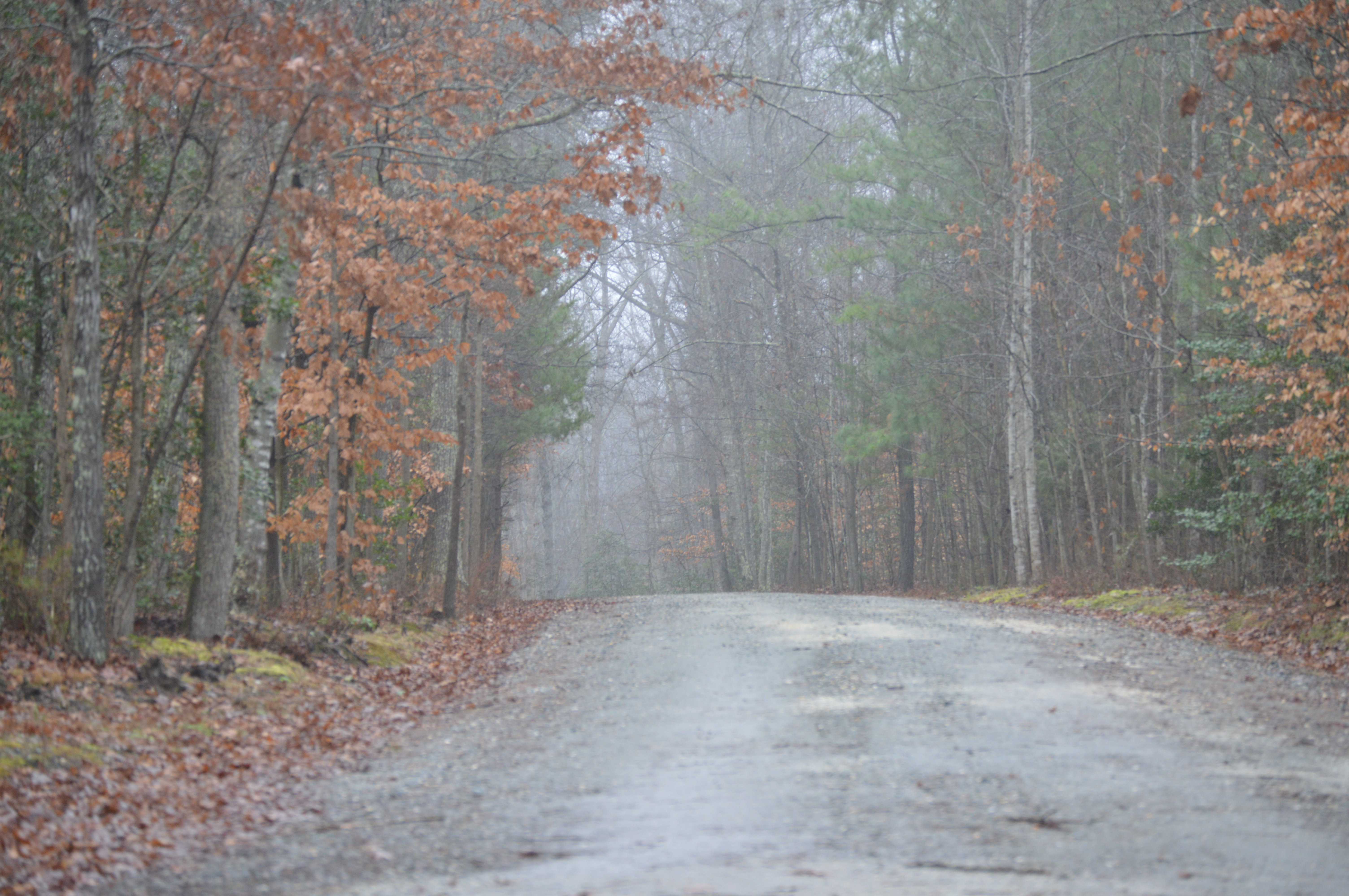 Entrance to the Burlington estate, located on River Road southeast of Beulahville in King William County, Virginia, United States. The farmstead is listed on the National Register of Historic Places.